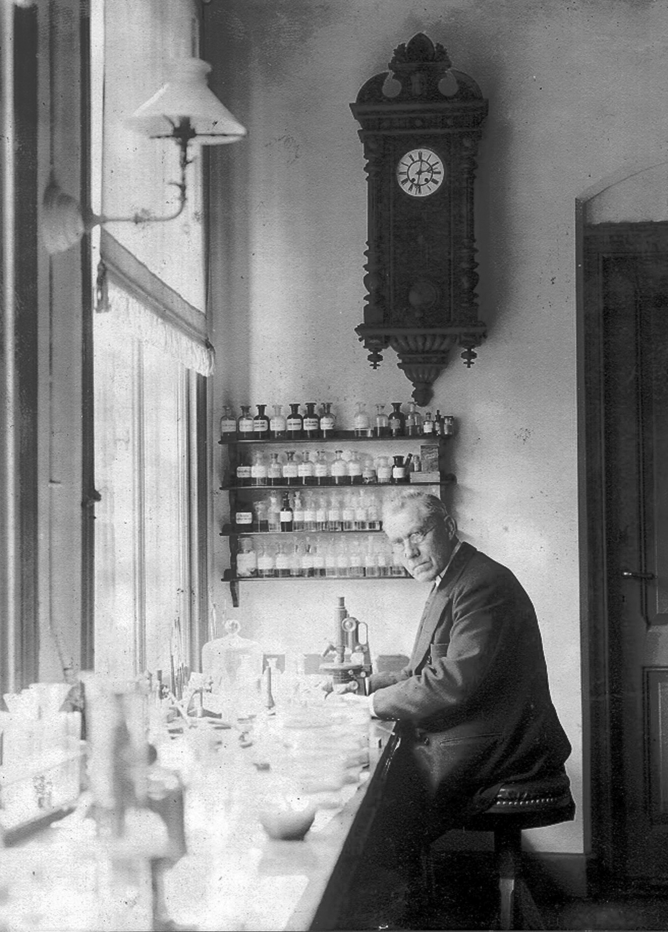 Martinus Beijerinck in his laboratory.The photographer is unknown. It's in a professional-style mount, but there's no names embossed on the mount. It has the date 12 May 1921 on the back in his sister's handwriting, so it was taken just before he retired on 21 June 1921, and left Delft for good.